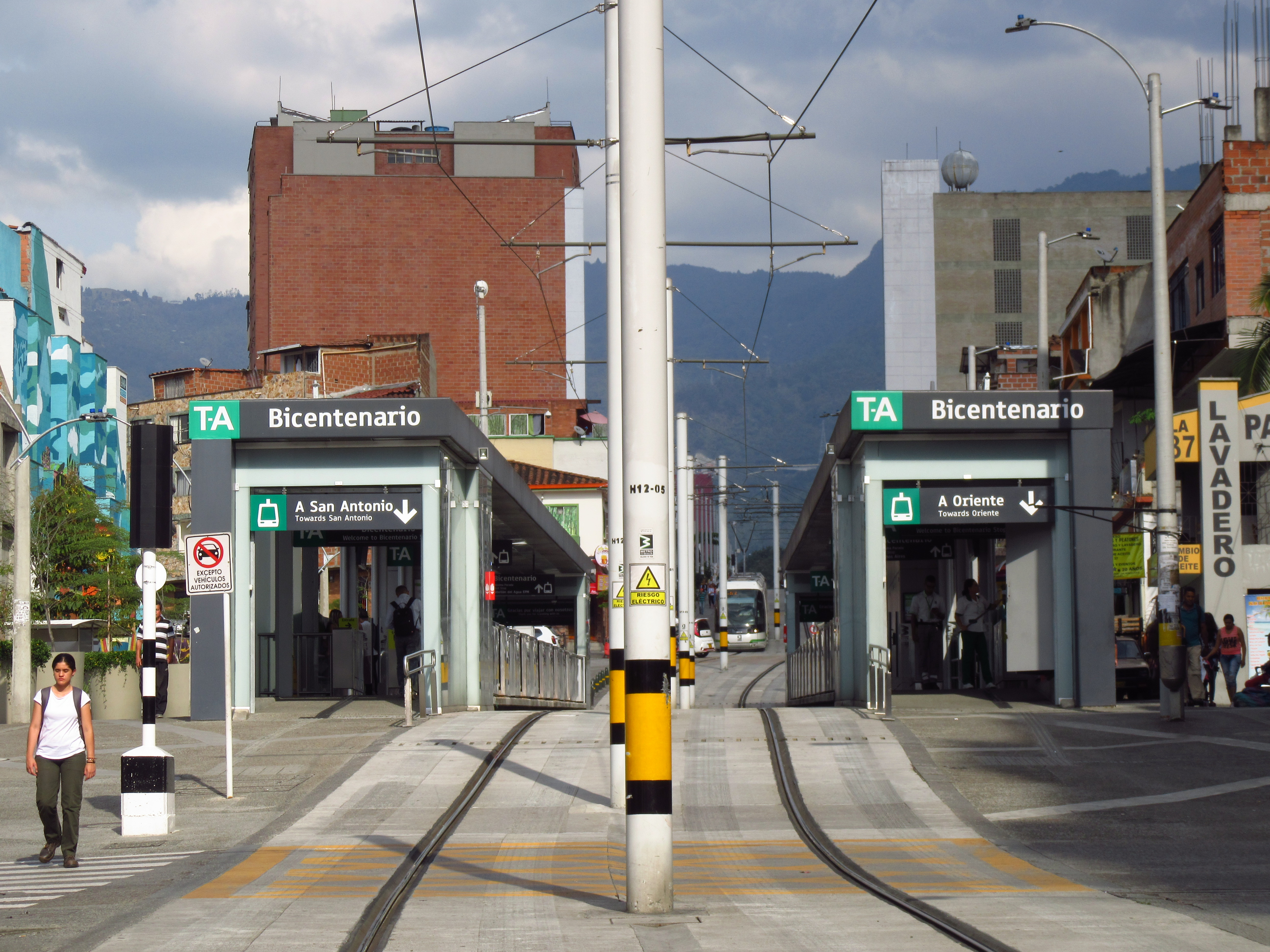 Medellín